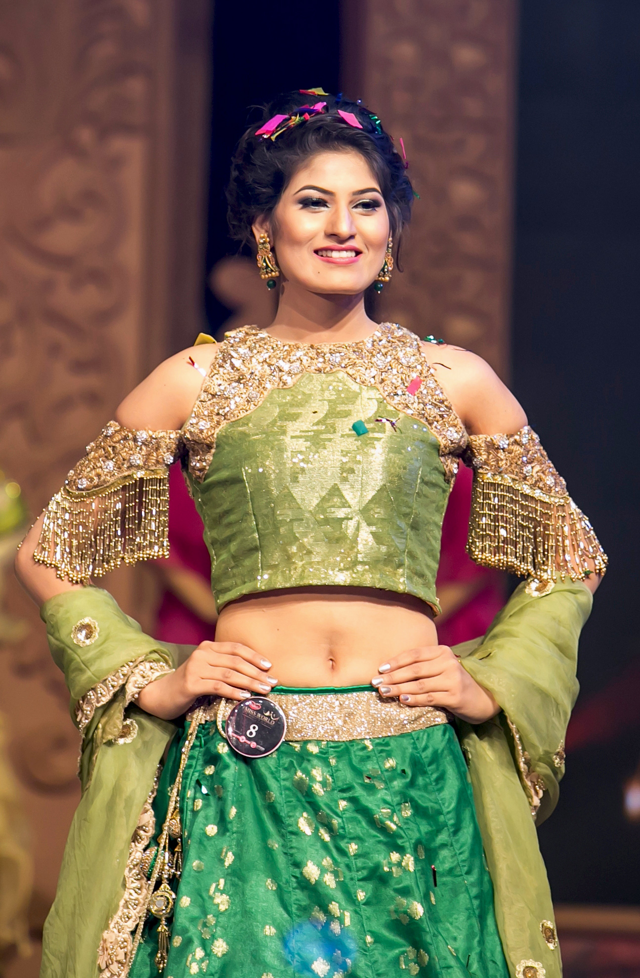 Jannatul Nayeem Avril (born September 4, 1990) is a Bangladeshi lawyer, model and beauty pageant titleholder.